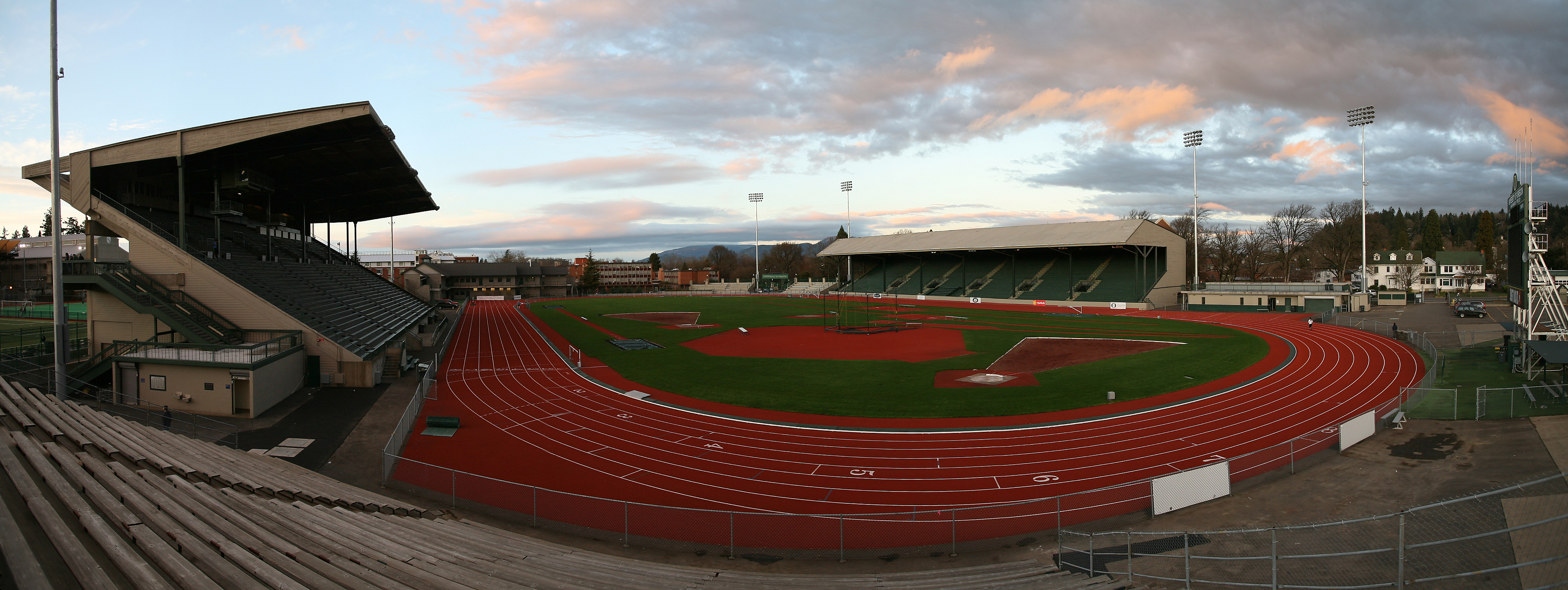 A panoramic image of Hayward Field at the University of Oregon. Made from 4 images.